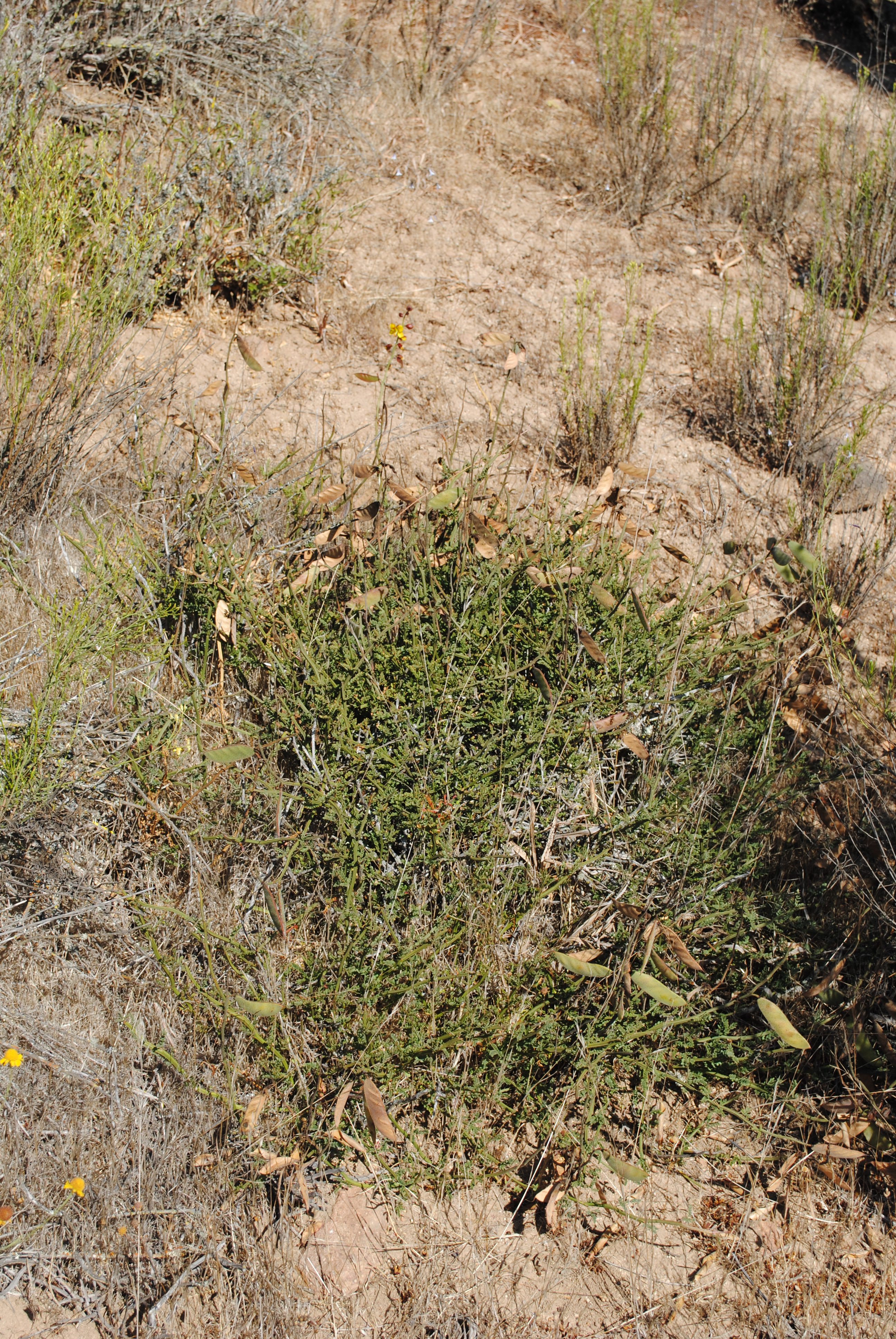 Habit of Caesalpinia angulata a shrub endemic to the 3. and 4. region of Chile. Picture taken in: Region de Coquimbo, Valle de Elqui, Quebrada de Talca, Los Rulos